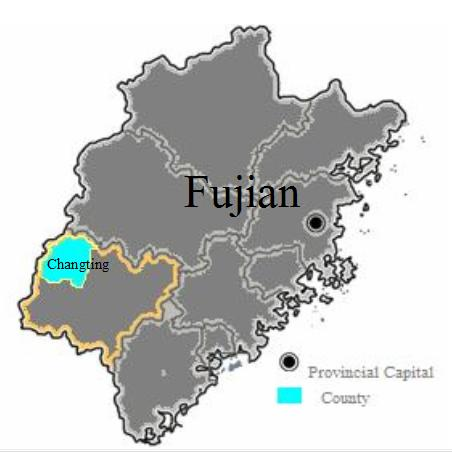 Changting